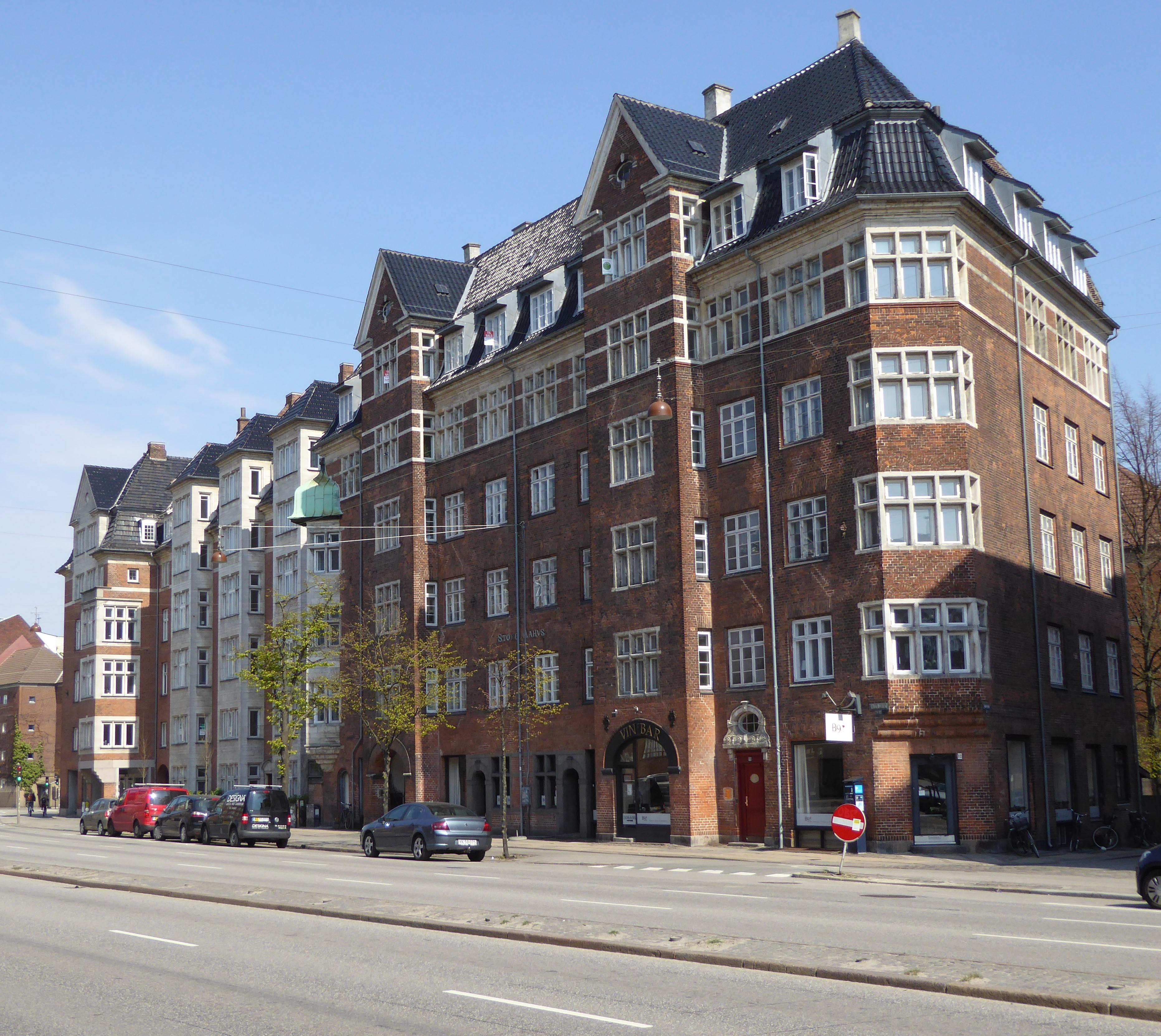 Åhusene (Åboulevard 12-18( in Copenhagen, Denmark